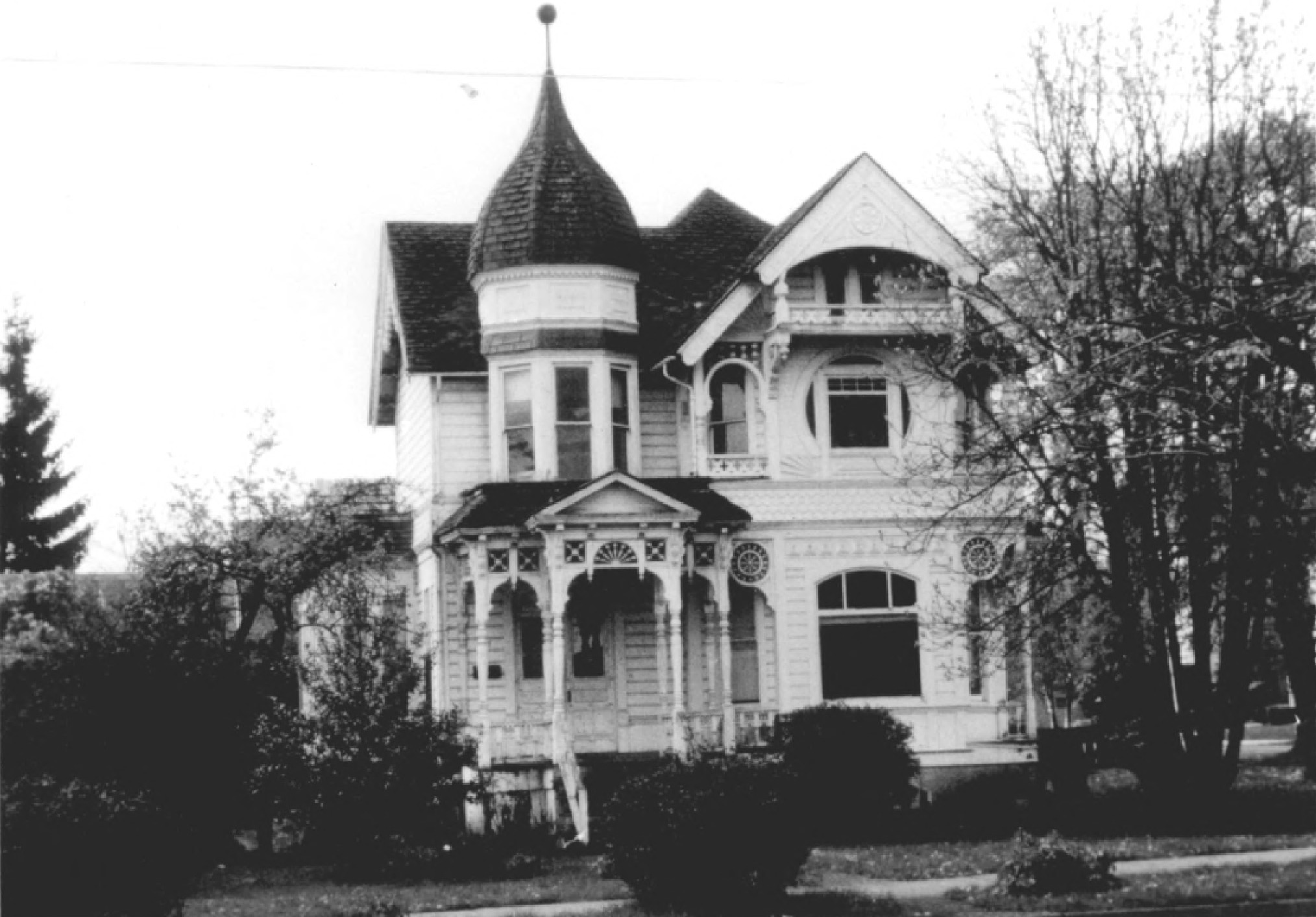 The historic Riley–Cutler House (built ca. 1892), located at 11510 Pedee Creek Road near Pedee and Monmouth, Oregon, United States, is listed on the US National Register of Historic Places. It is seen here at its original location in Dallas, Oregon, before being relocated to Pedee in 1979. Original caption at source: North (front) elevation at original site in Dallas